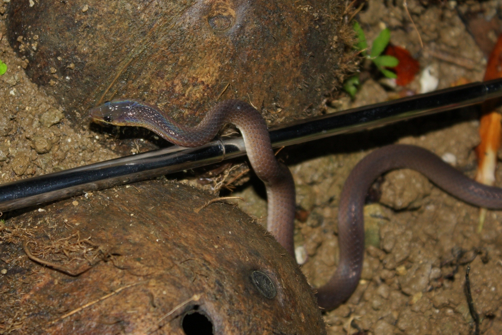 Found next to the Loboc river on Bohol.